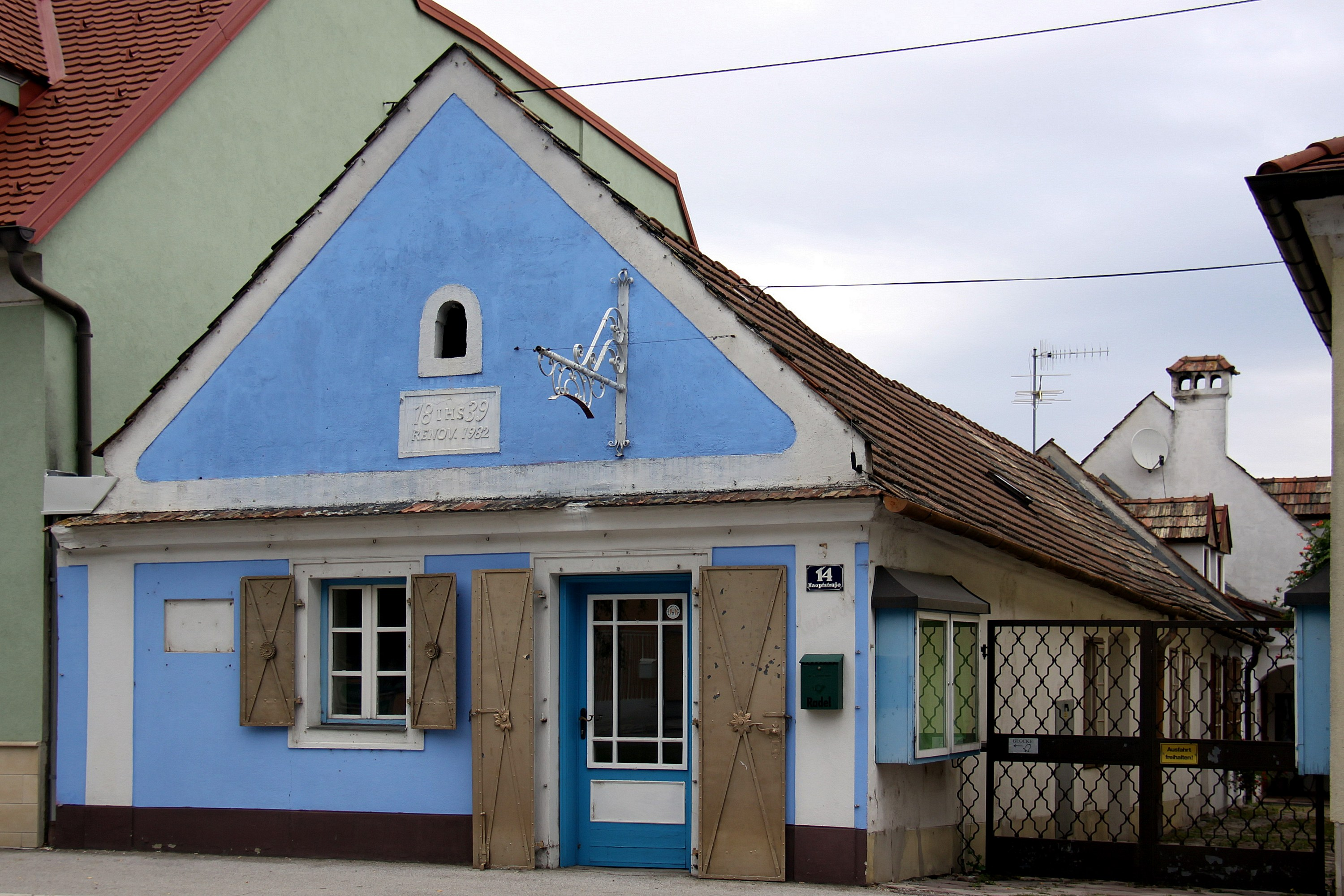 Old house, built 1839 - Neudörfl Object location47° 47′ 48.92″ N, 16° 17′ 43.1″ E